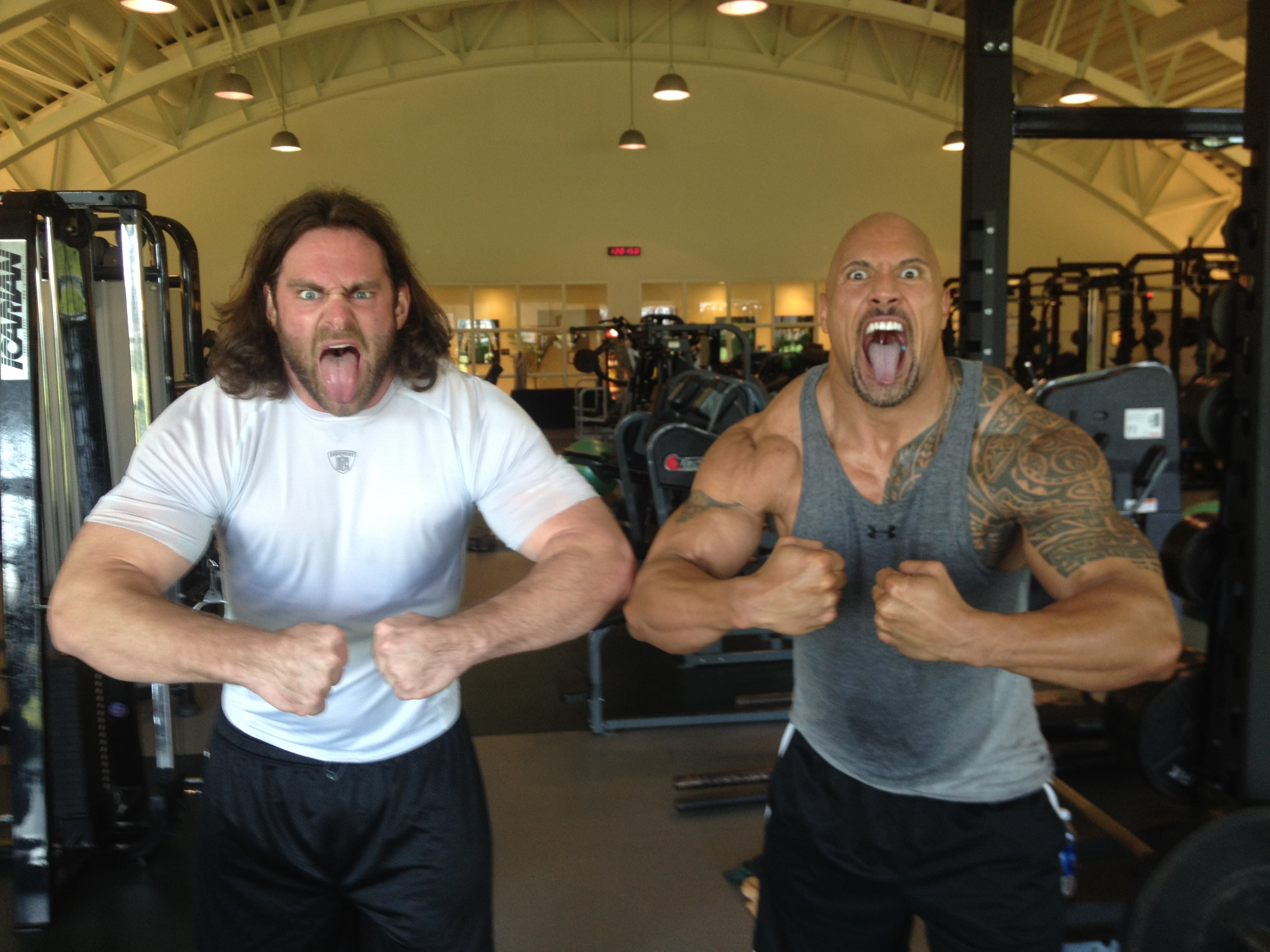 Philadelphia Eagle's Offensive Guard Evan Mathis (left) and Dwayne "The Rock" Johnson (right).